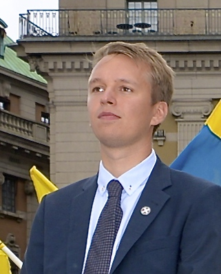 SvP rally in Stockholm August 30, 2014.